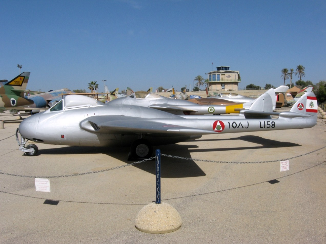 De Havilland Vampire at the Israeli Air Force museum in Hatzerim, bearing colours of the Lebanese Air Force